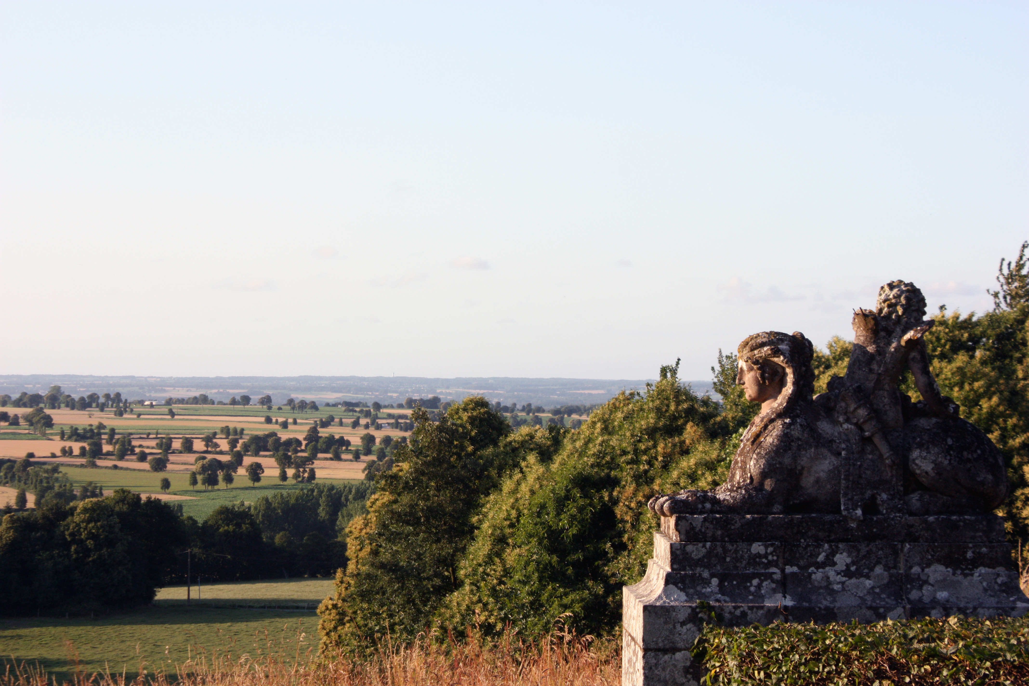 Female sphinx statue in the park of the château of Caradeuc in Plouasne, France.